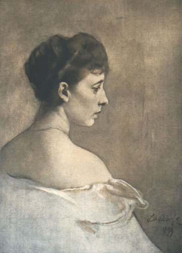 Princess Charlotte of Prussia, Duchess of Saxe-Meiningen